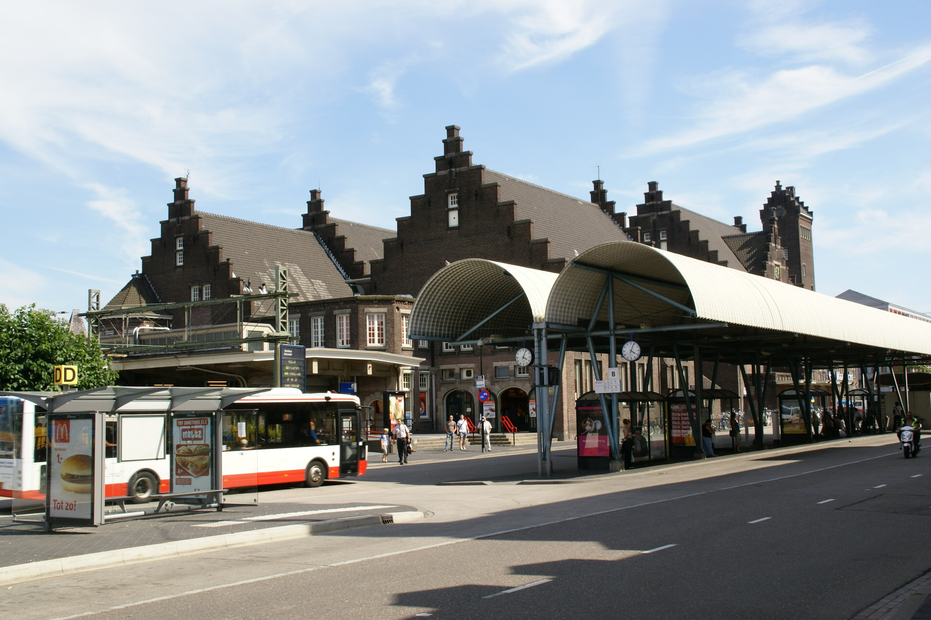 Bus station at the train station in Maastricht, Netherlands